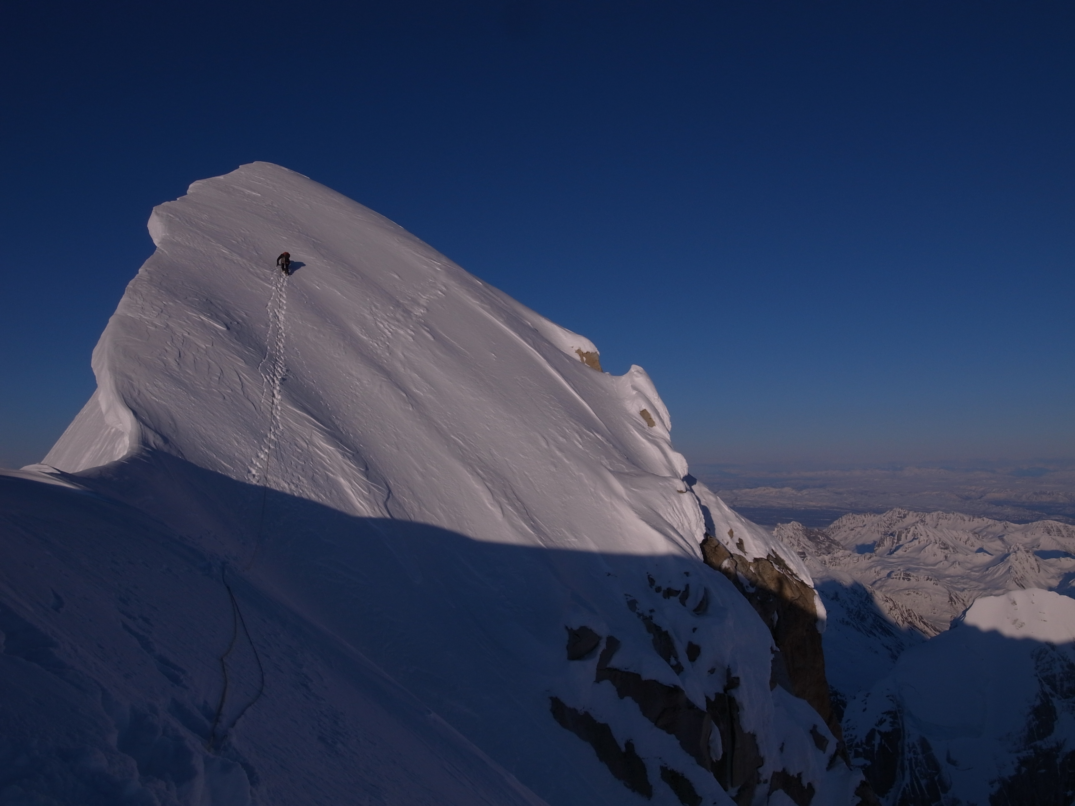 Jim Broomhead nearing the summit of Mooses Tooth, Alaska Range. Photo by: Kristoffer Szilas.